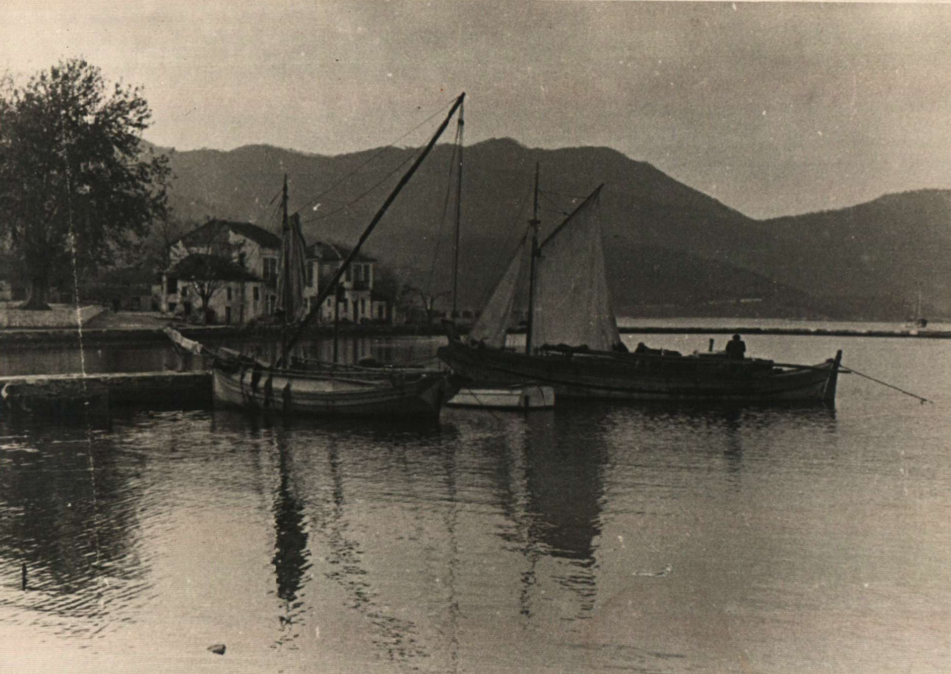 Thasos